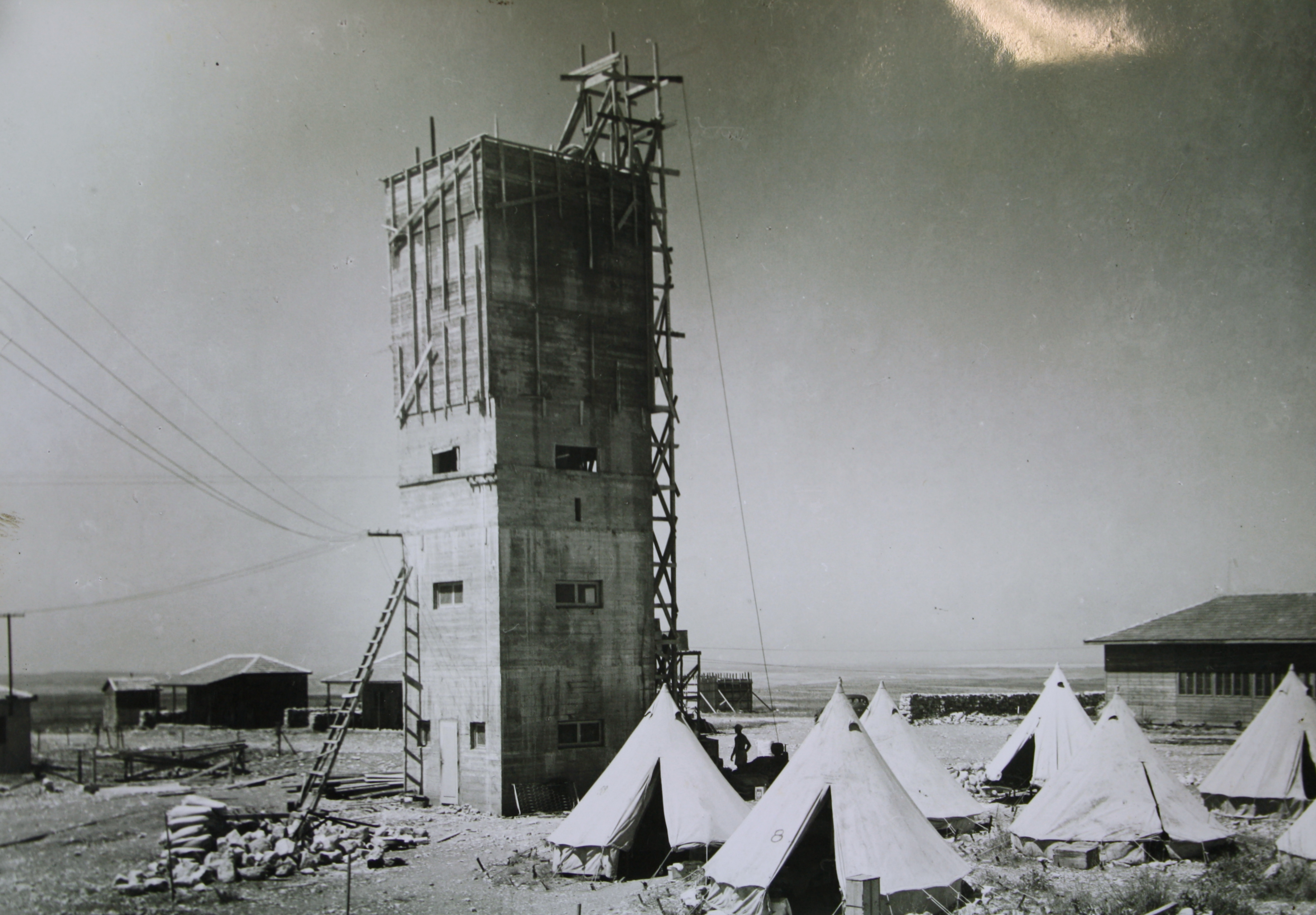 Tower and stockade, Ein HaShofet, 1938